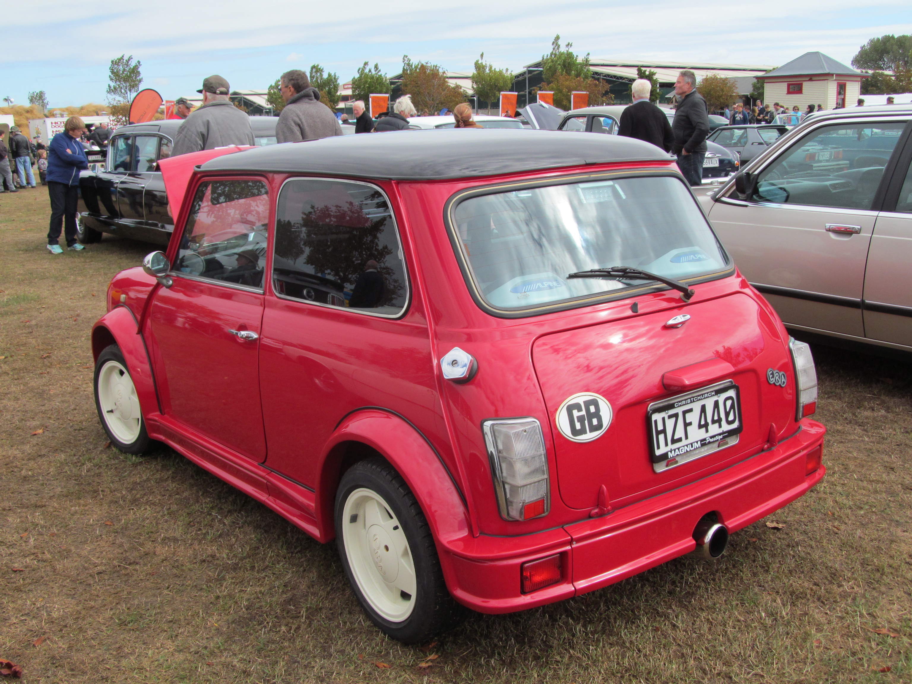 1989 ERA Mini Turbo at a New Zealand car show in 2015. Imported from Japan in 2015.